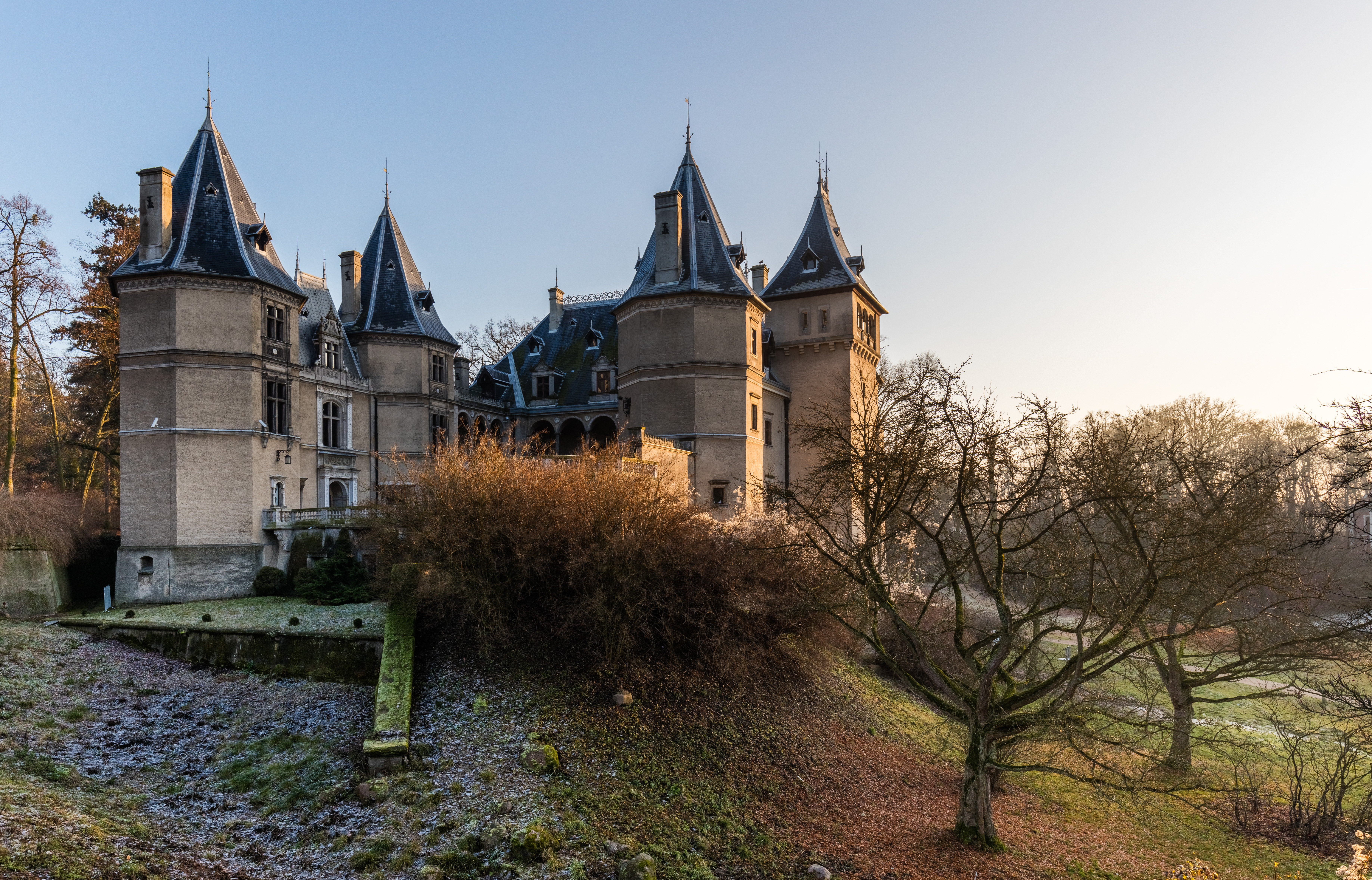 Gołuchów Castle, Greater Poland, Poland IV-73/166/54.